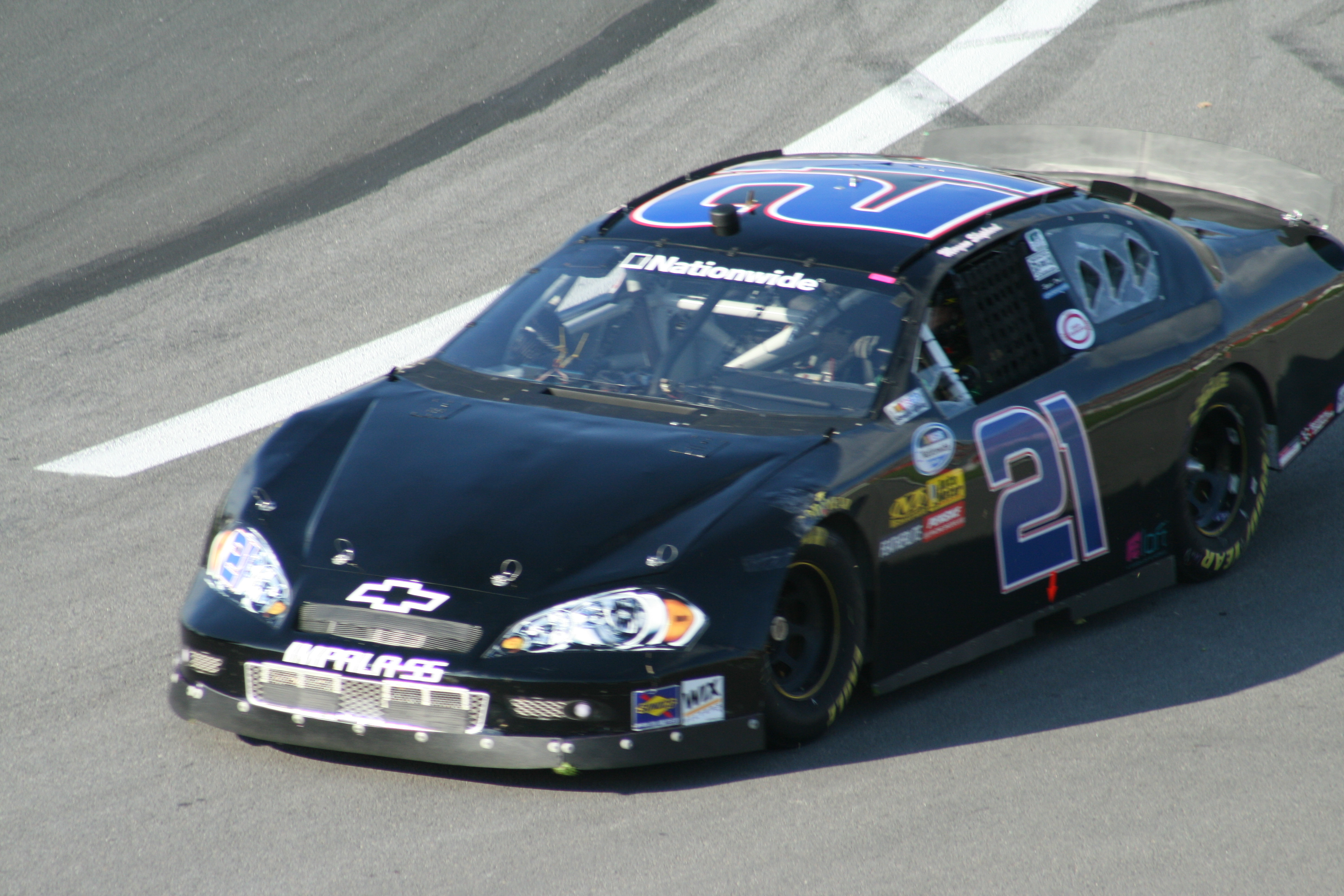 Morgan Shepherd in the qualification for the 2010 NAPA Auto Parts 200 at the Circuit Gilles Villeneuve in Montreal.